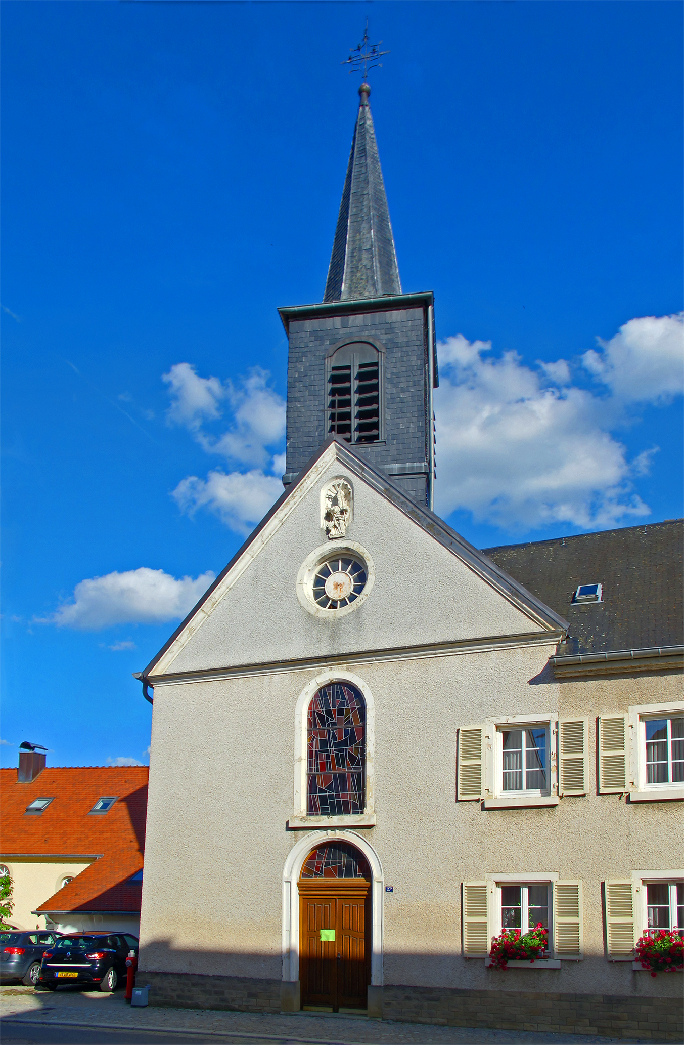 Church of Reckange, Luxembourg